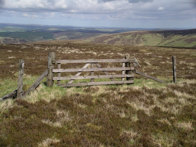 Fence and gate, Windlestraw Law. The unnamed height at 577m to the NNW of Windlestraw Law has not much in the way of features except this gate, one of the very few on the whole of the fence stretching many kilometres.